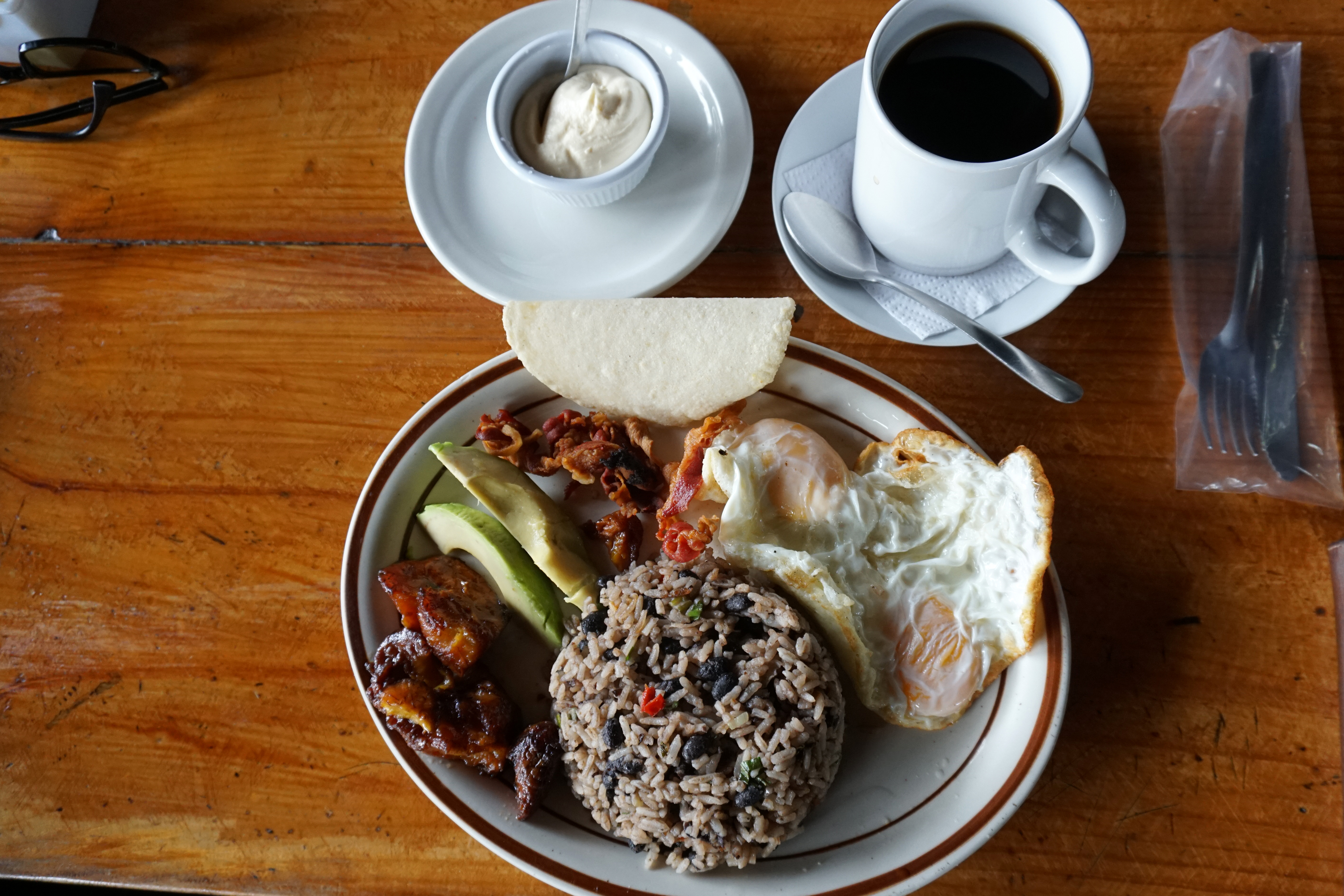 Gallo pinto is the typical breakfast dish of Costa Rica. Gallo pinto is a mixture of rice and black beans, as shown served also with fried eggs, plantain, bacon, avocado, corn tortillas and sour cream (natilla), usually accompanied by coffee as shown. Gallo pinto is also a typical dish in Nicaragua, and with variations, also served in several Latin America